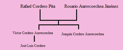 The family tree of the Mexican actor Joaquín Cordero, whose nephew is also an actor